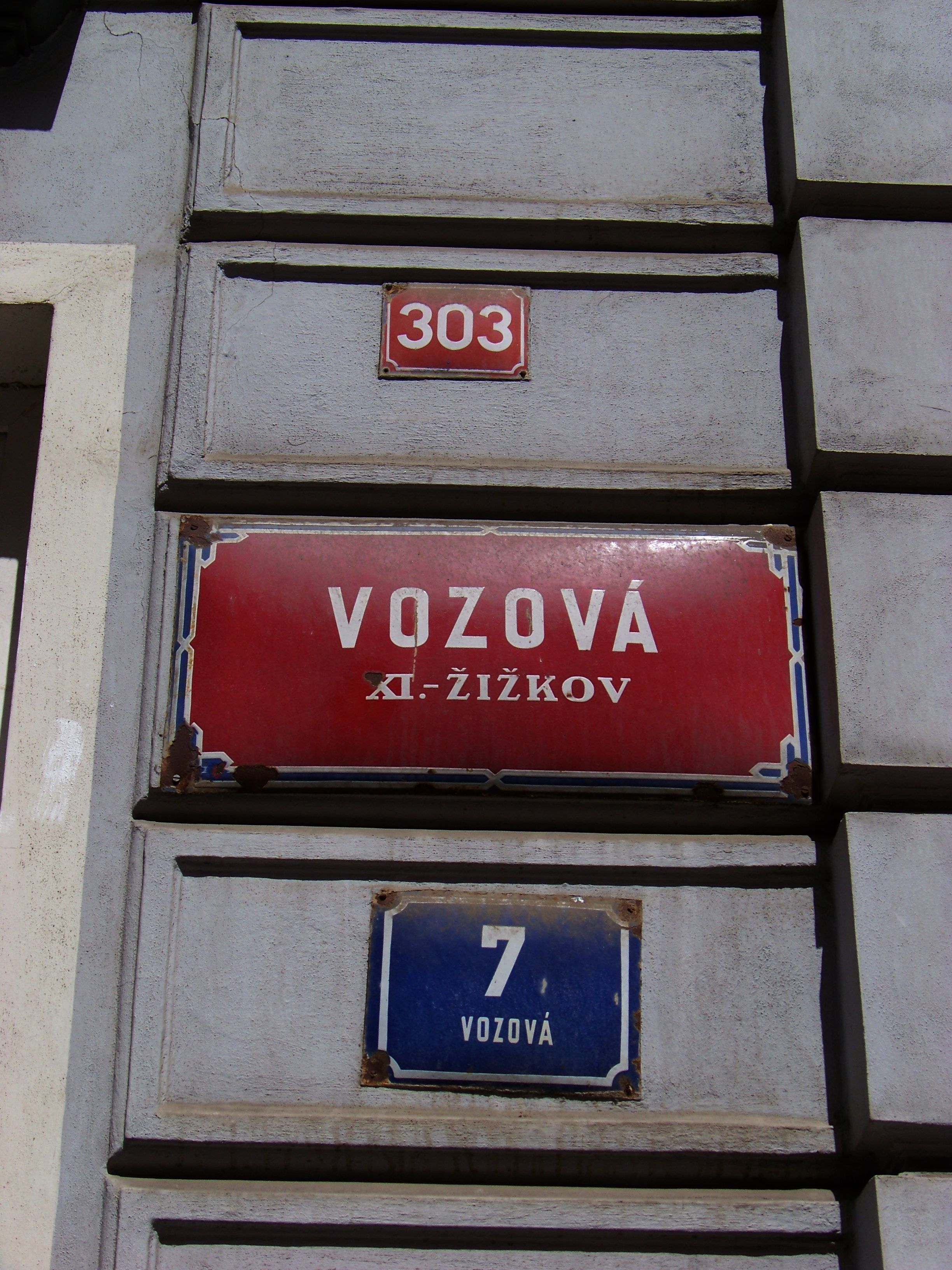 Prague-Žižkov, the Czech Republic. Vozová 1034/7, old street and house signs.